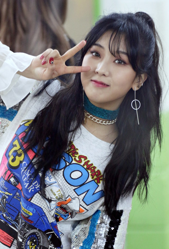 170207 CLC Chang Seung-yeon at SOPA Graduation